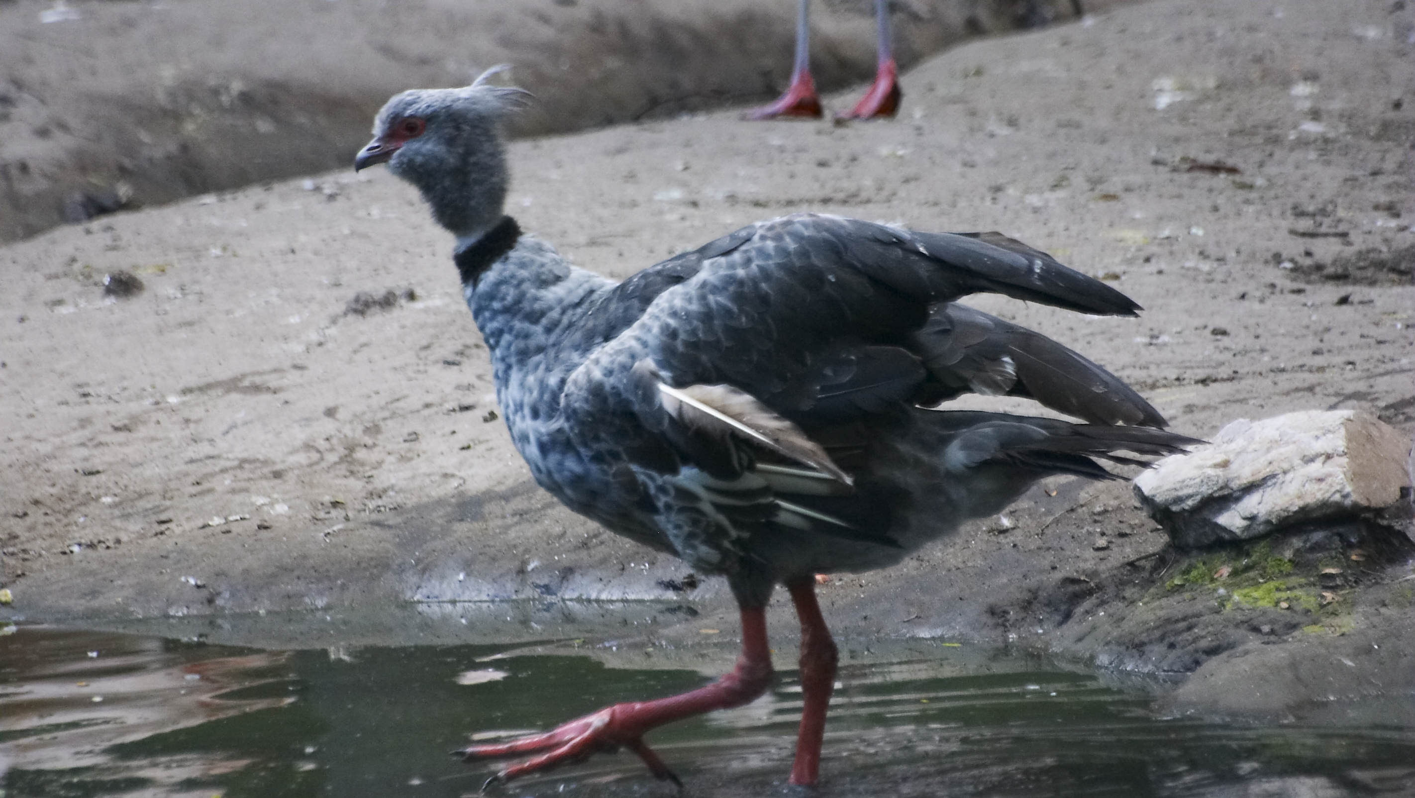 Descripción: Chauna torquata at América's zoo, Argentina.